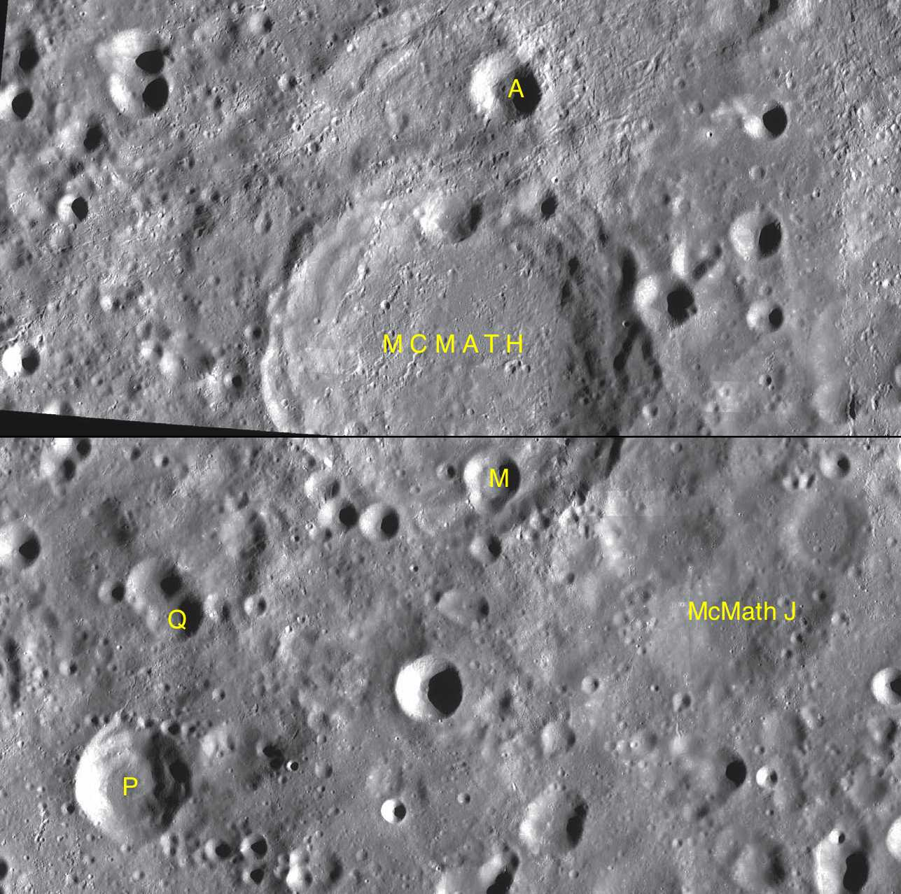 Parts of the charts LAC-51, LAC-69 used for the presentation